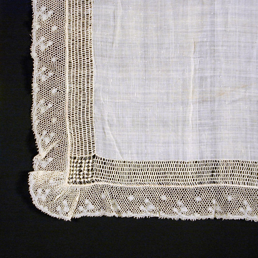 Germany or Switzerland, 19th century Costumes; Accessories White applique on linen batiste with needlepoint fillings Gift of Miss Beatrice Wood (60.41.108) Costume and Textiles